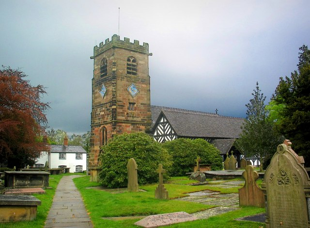 Church at Lower Peover : The body of the church with its black and white timbering dates from the 14th century. The Perpendicular stone tower is a later addition, built in 1582.